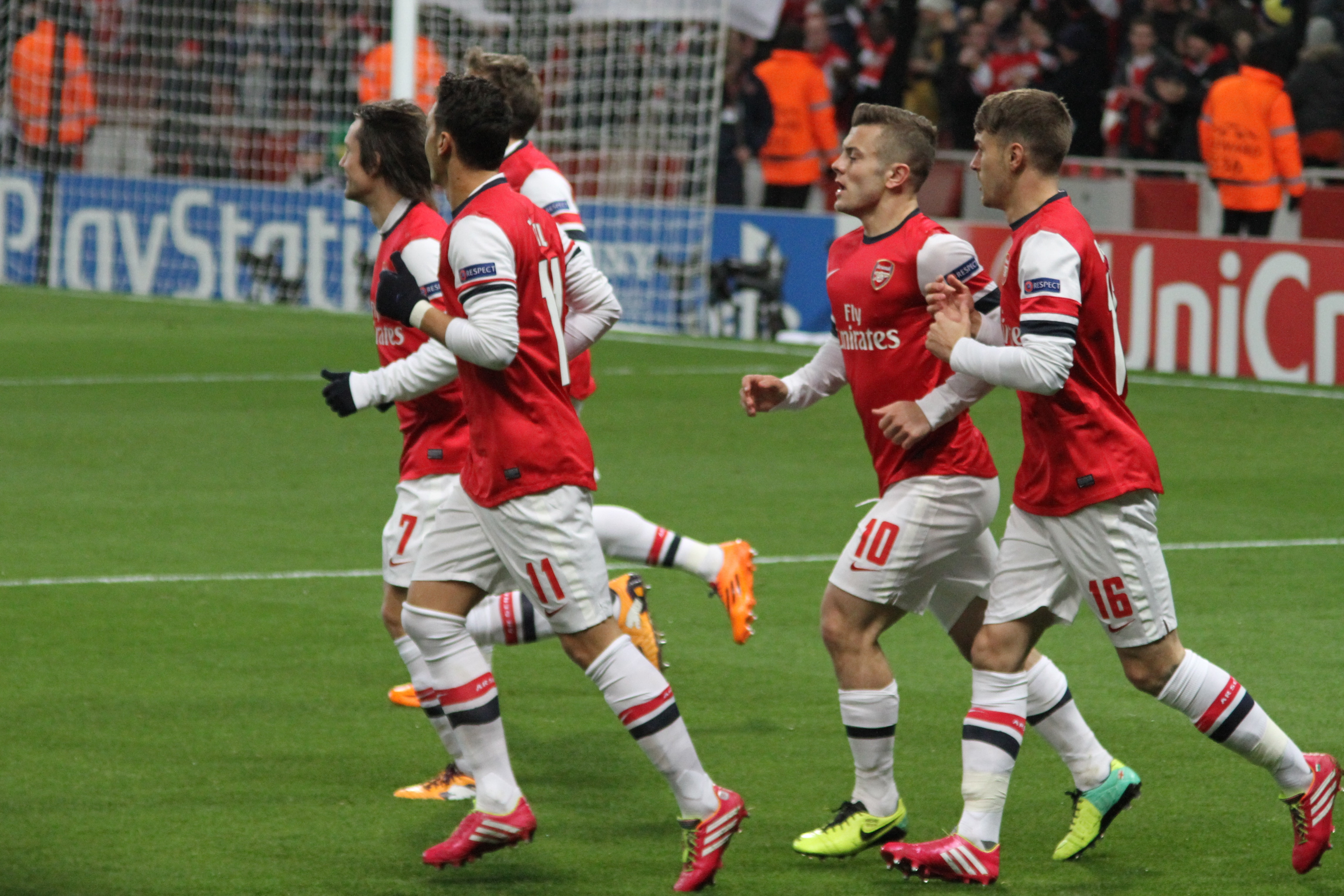 Wilshere after his very early goal